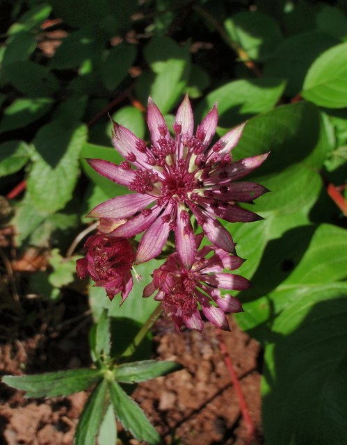 Masterwort, Northernhay Gardens, Exeter A single Astrantia growing in the flowerbeds on the northwest side of the gardens. When found in the wild, Pink Masterwort (Astrantia major) is rather less pink than this, which is probably the 'Ruby Wedding' variety.